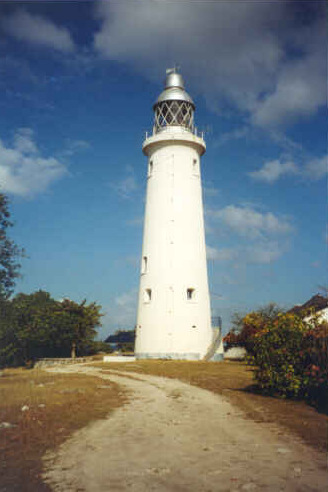 A photograph of Negril Lighthouse, which is on the westernmost tip of Jamaica. The concrete tower is 20 m (66 ft) high while the light is 30 m (100 ft) above sea level. It has an automatic white light which flashes once every two seconds.